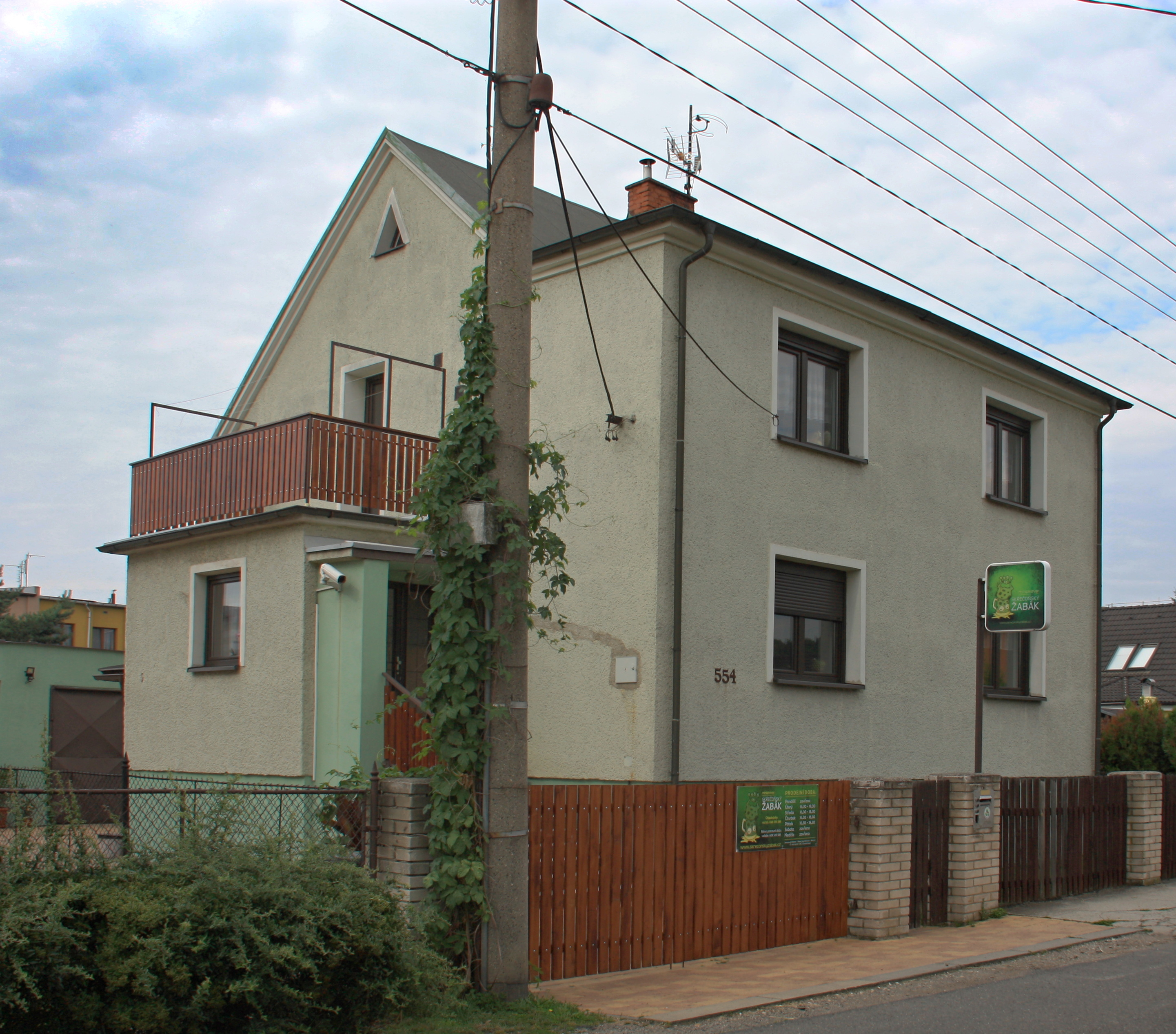 Brewery Skřečoňský žabák in Bohumín, Karviná District, Moravian-Silesian Region, Czech Republic